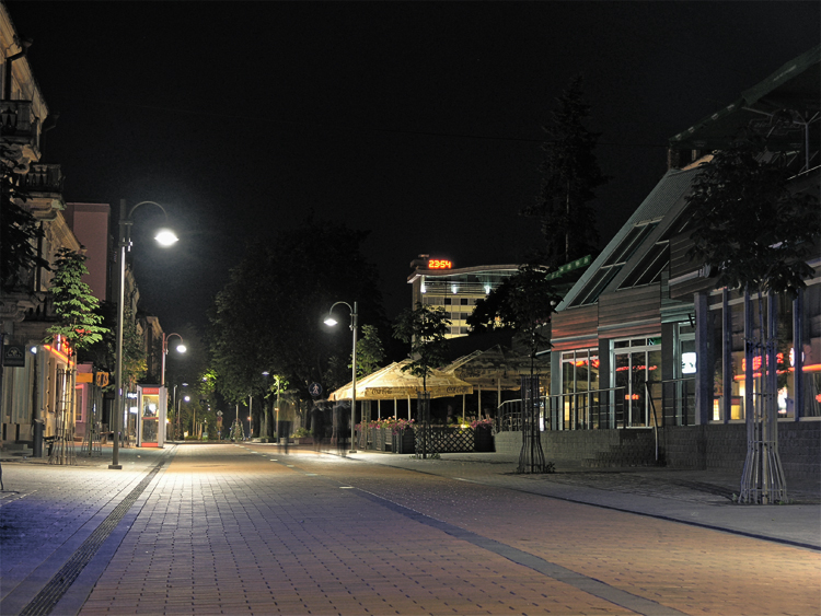 Rigas Street, Daugavpils, Latvia